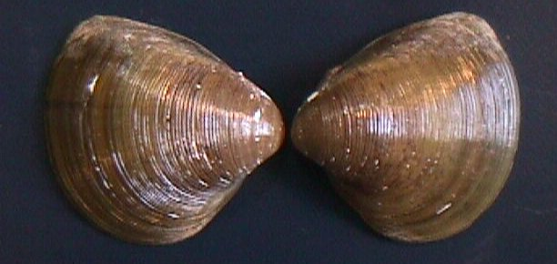 Crop of file in filename